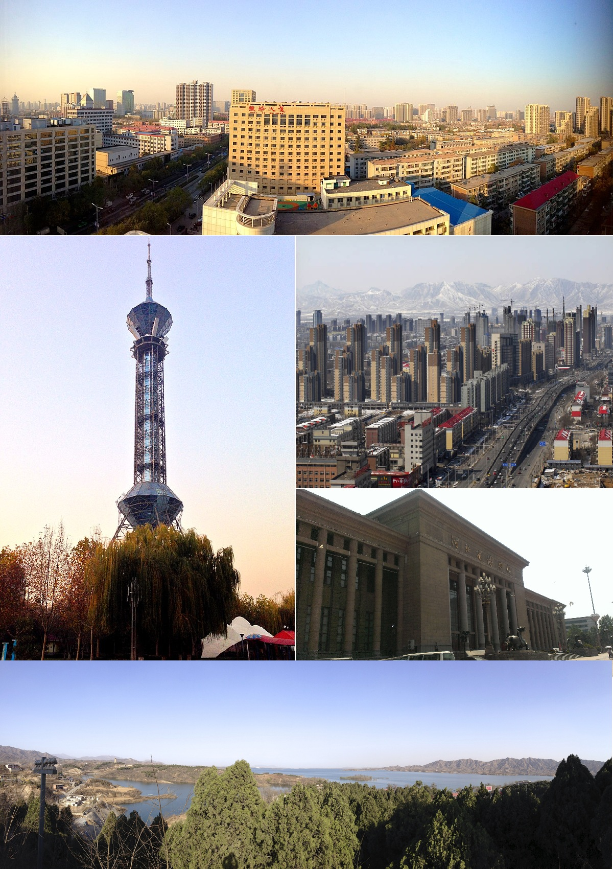 Shijiazhuang montage